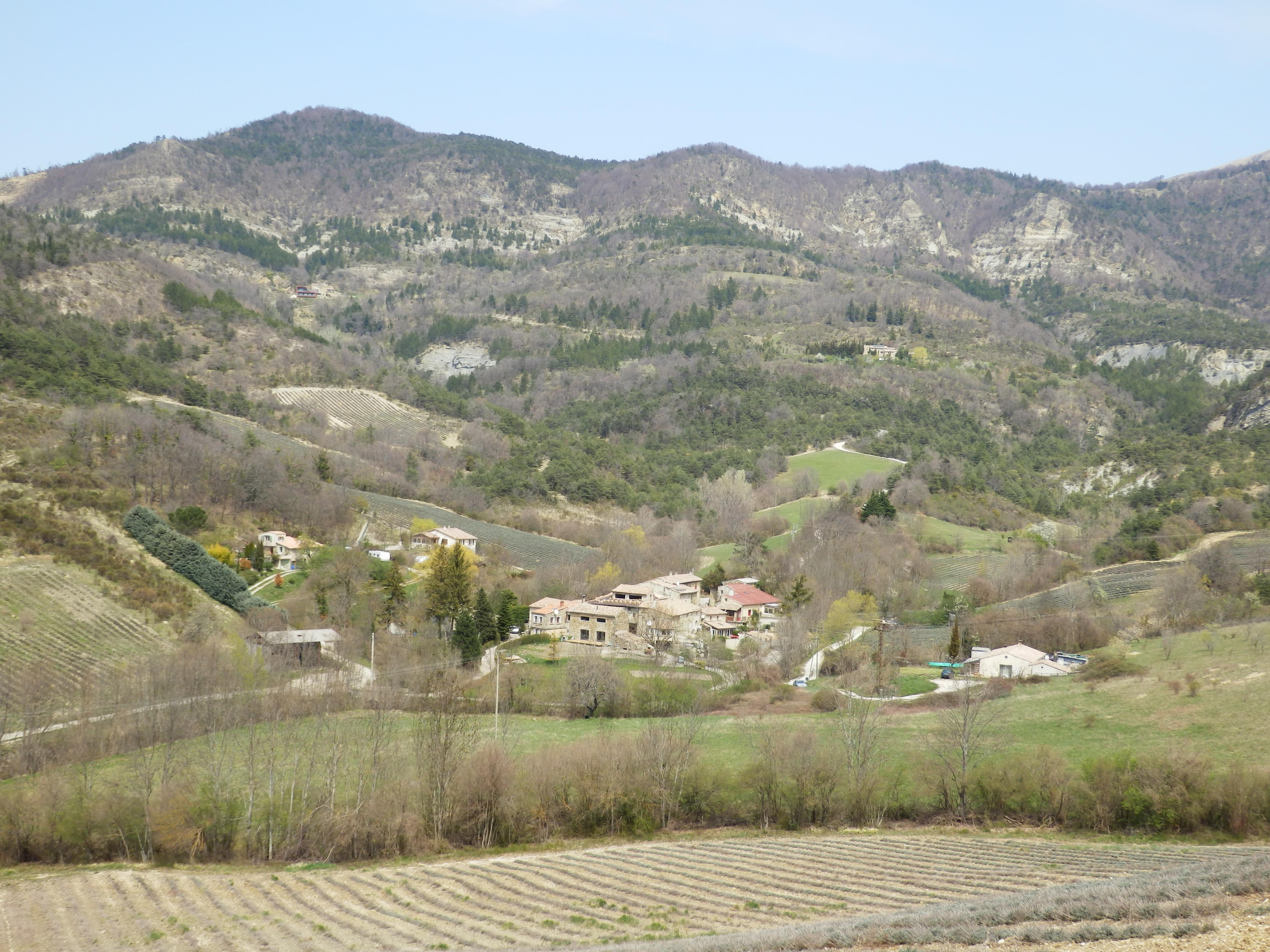 Les Tardieux, Teyssières, Drôme, France